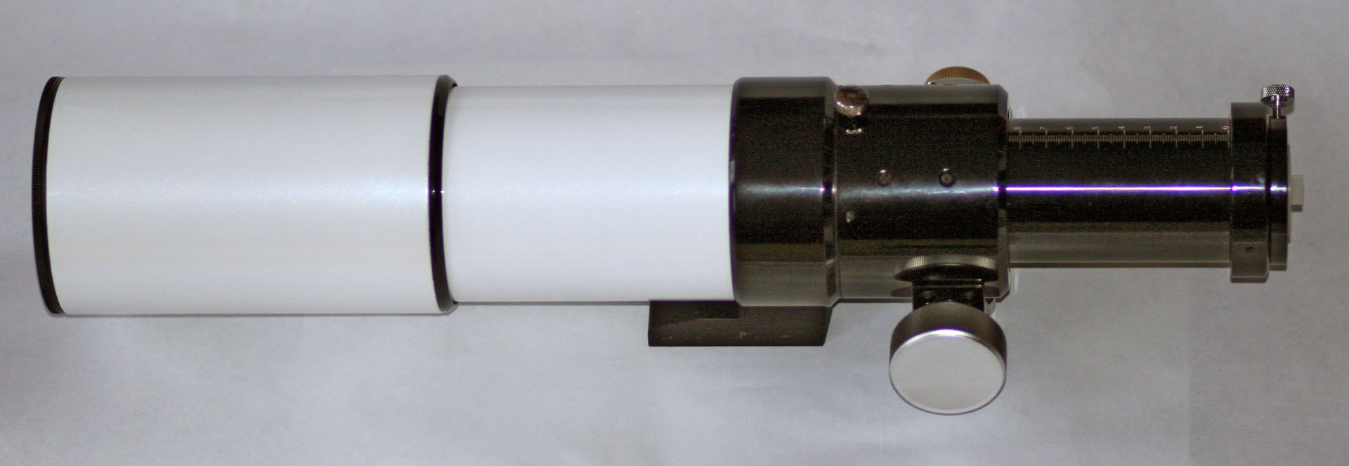 A small refractor telescope with the fokusser drawn out